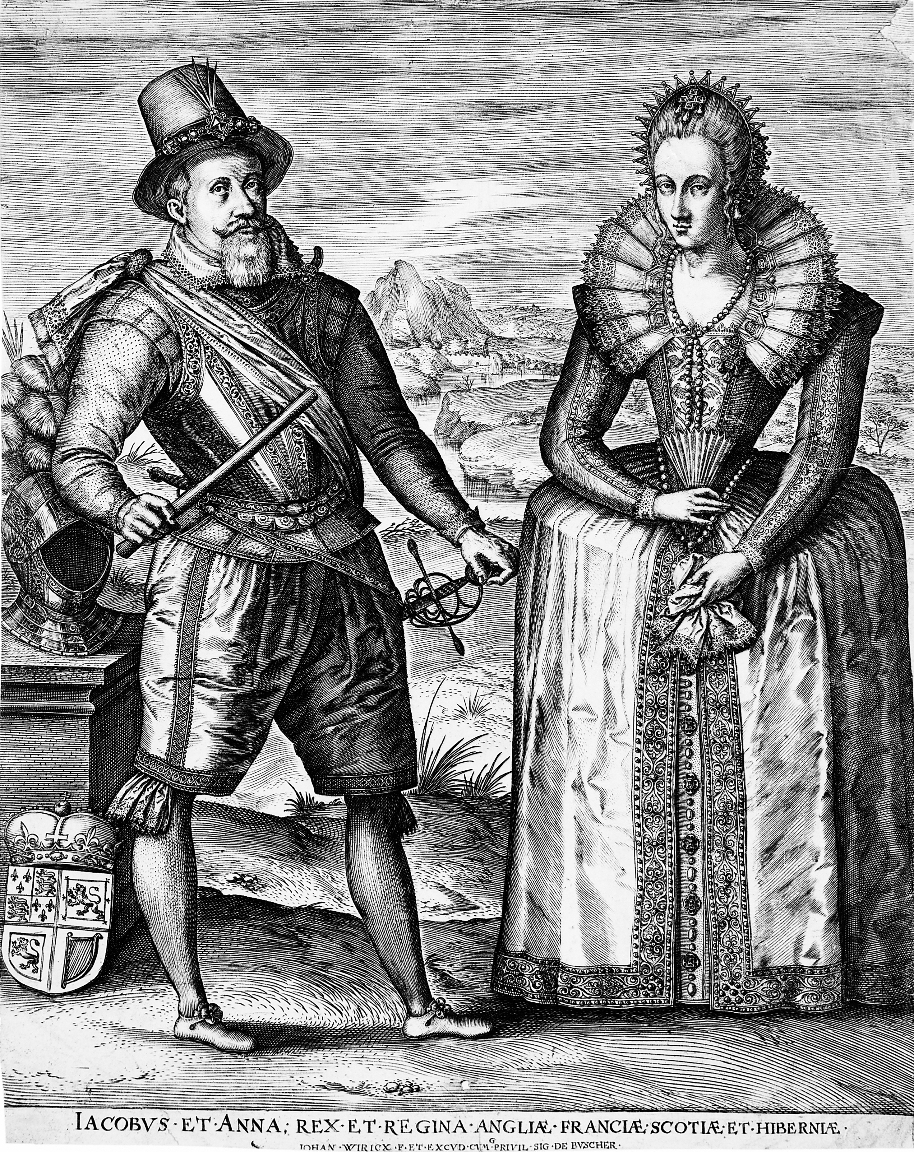 James I and VI with his consort, Anne of Denmark. King of England and Scotland. Iconographic Collections Keywords: King; James I; Royalty; Ann of Denmark; Hironymus Wierix